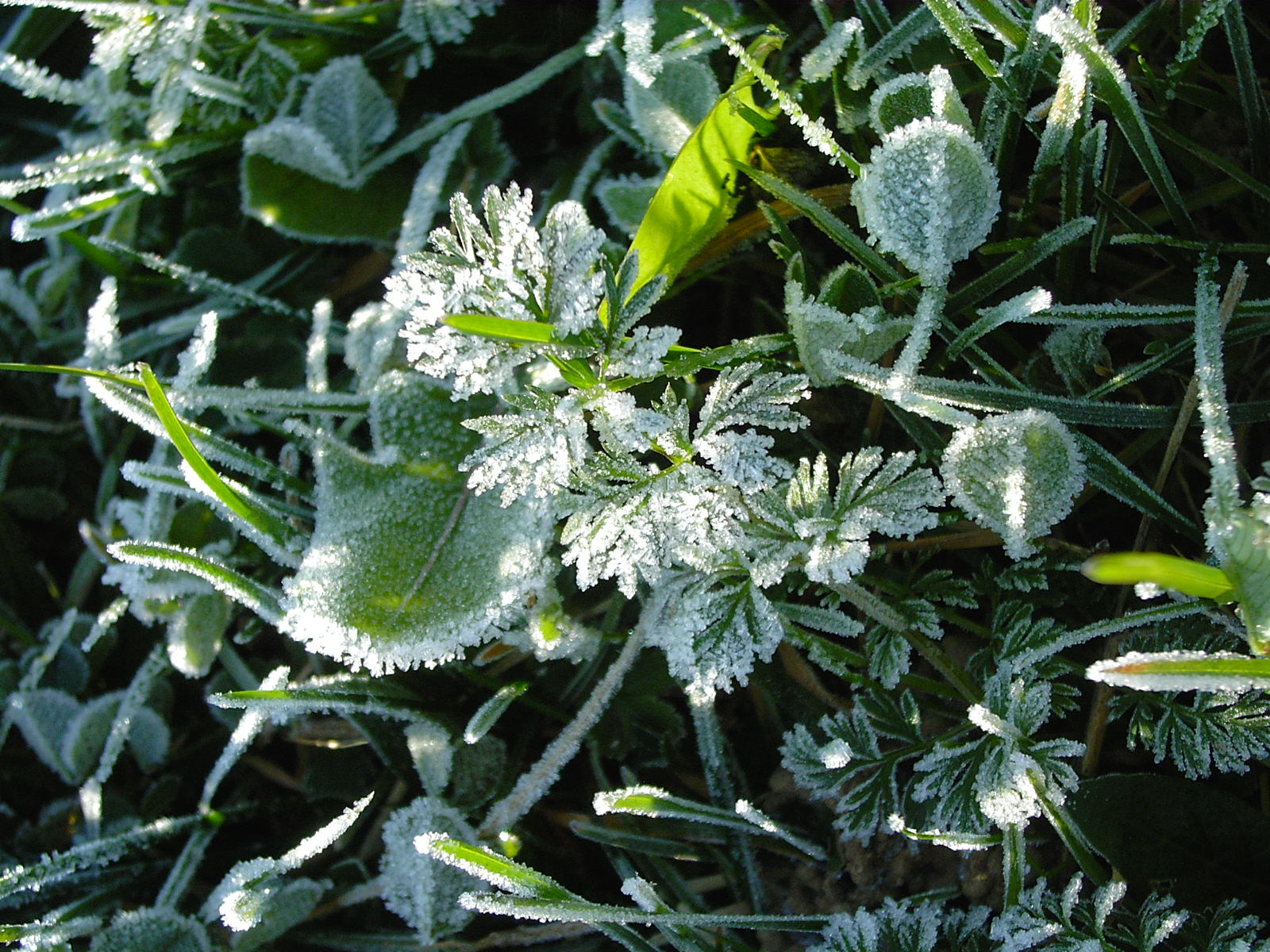 Leaves with rime ice after a freezing night.